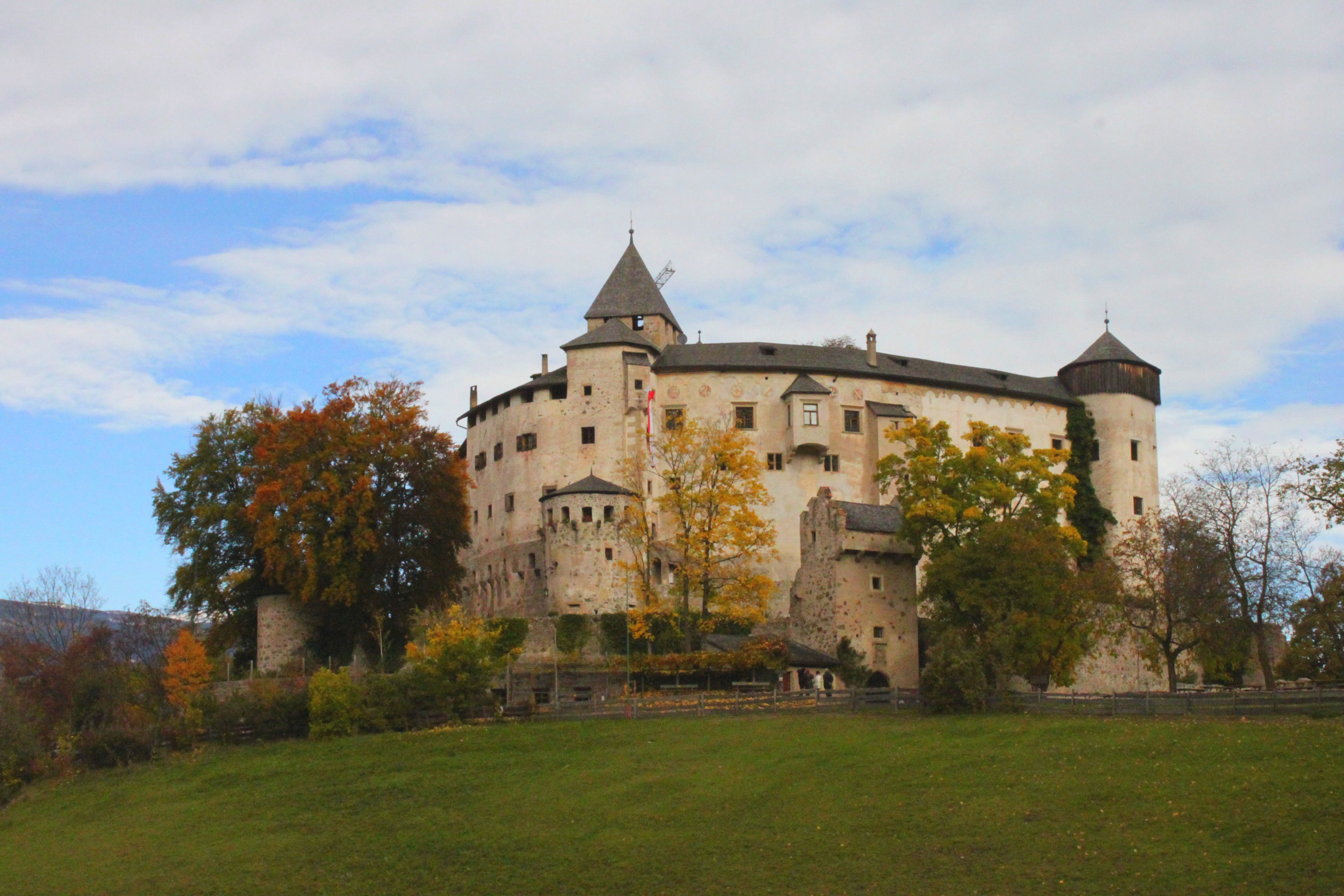 Prösels Castle in Völs am Schlern